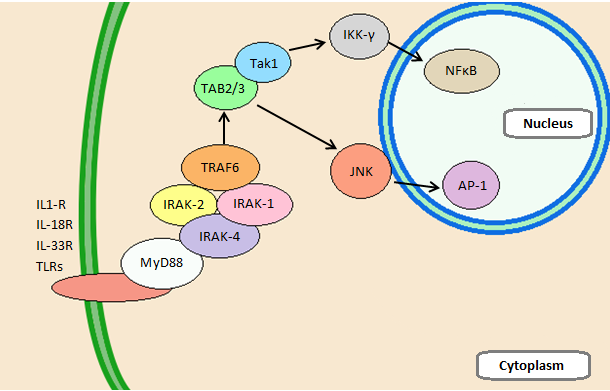 Overview of Signalling Pathway through IRAK4 and the myddosome complex. updated with figure labels of cytoplasm and nucleus.